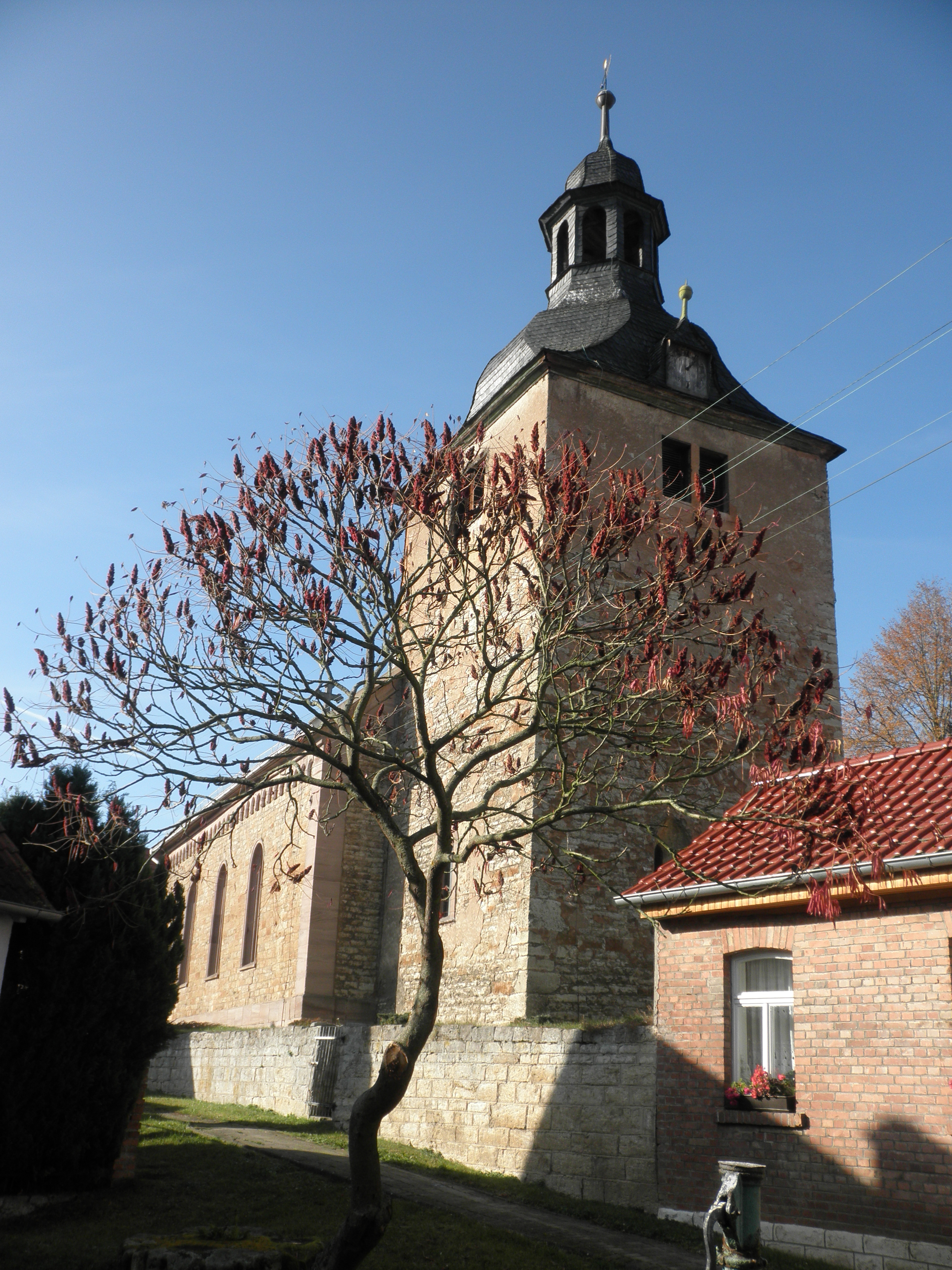 Church in Thüringenhausen in Thuringia